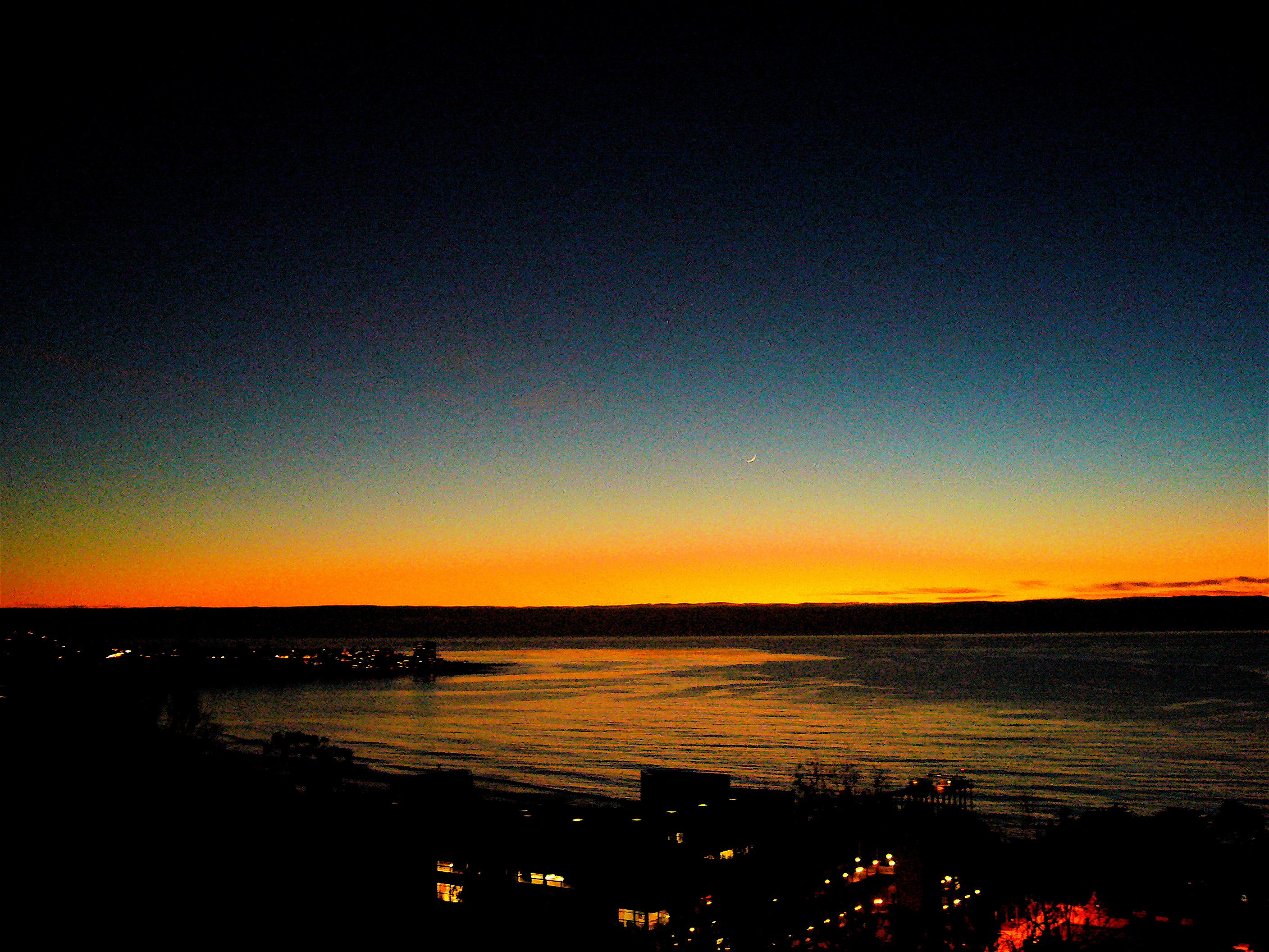 Sunset in La Jolla, California